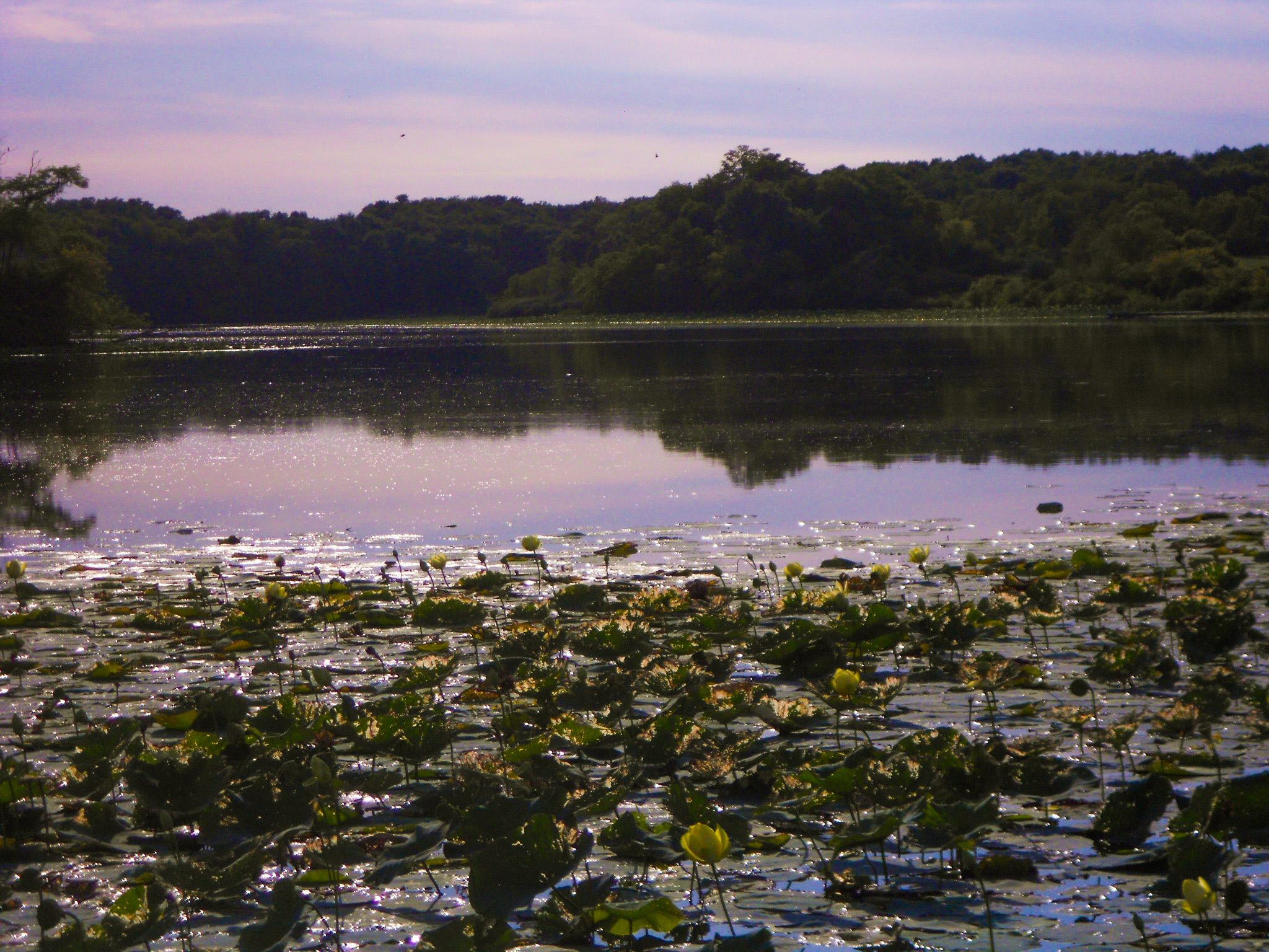 Morrison Rockwood State Park, 18750 Lake Road, Morrison, Il August 11, 2012